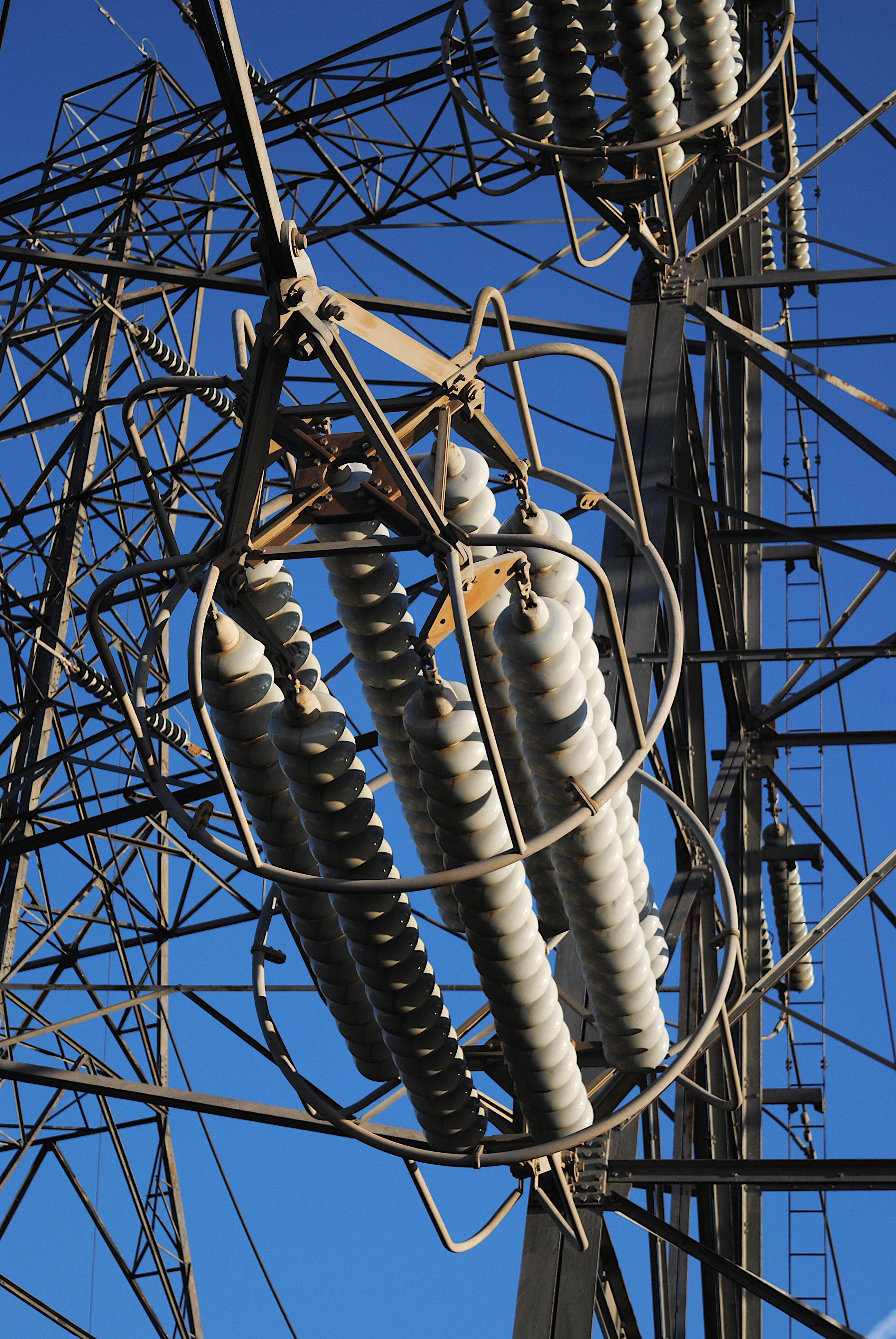 Newport Wetlands, an RSPB reserve in Newport, South Wales. Insulator 'bundle' of the eastern height reducing dead-end pylon of the 275 kV Uskmouth power line crossing.